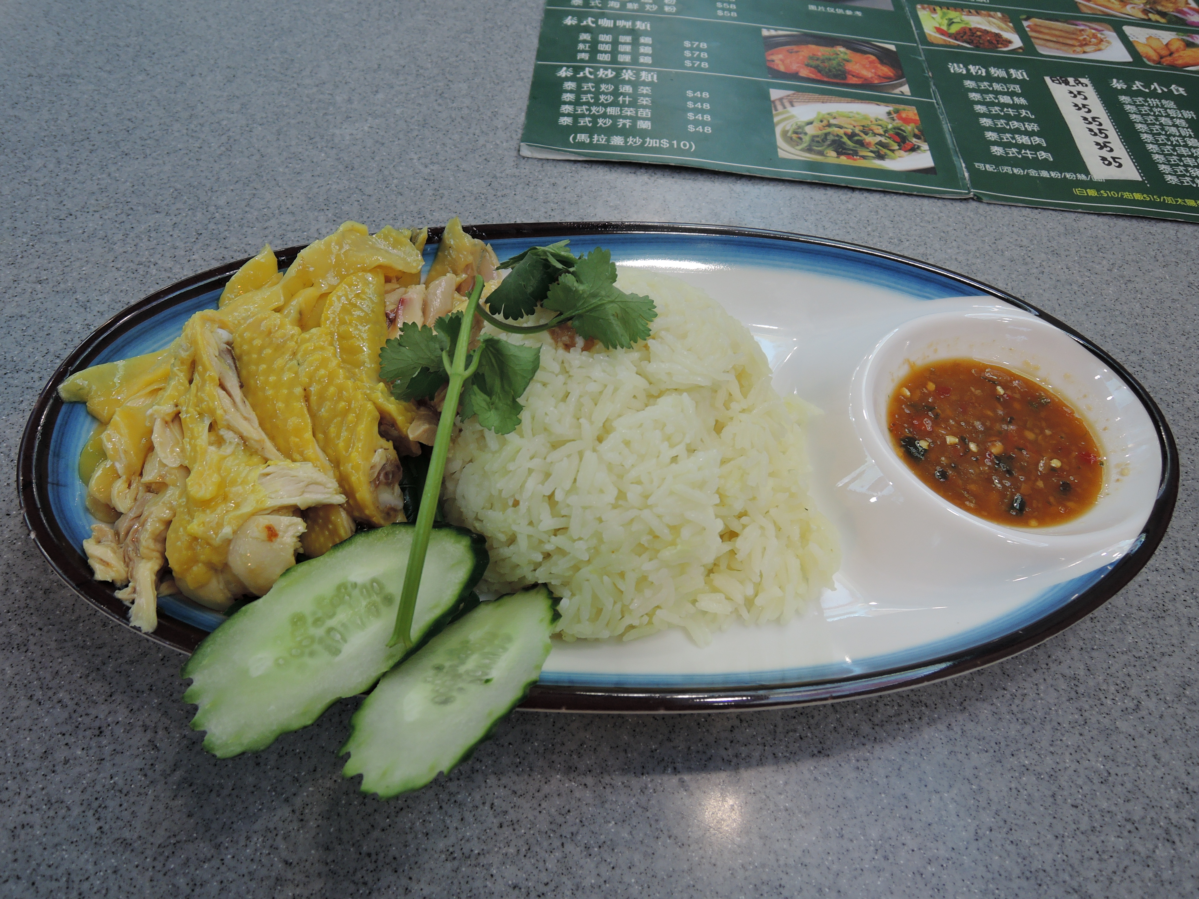 Hoinanese chicken rice with spicy sauce in local thai restaurant at building of Yuen Long